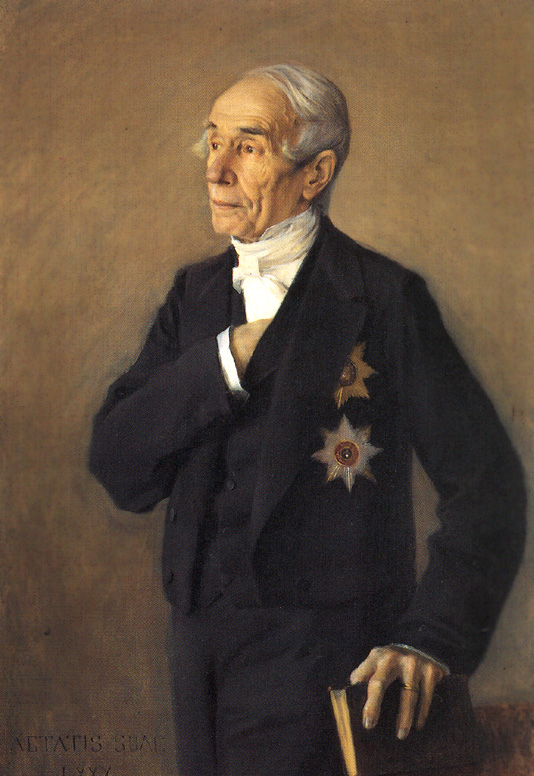 Finnish professor and senator Johan Philip Palmén. Painted by Eero Järnefelt in 1892.